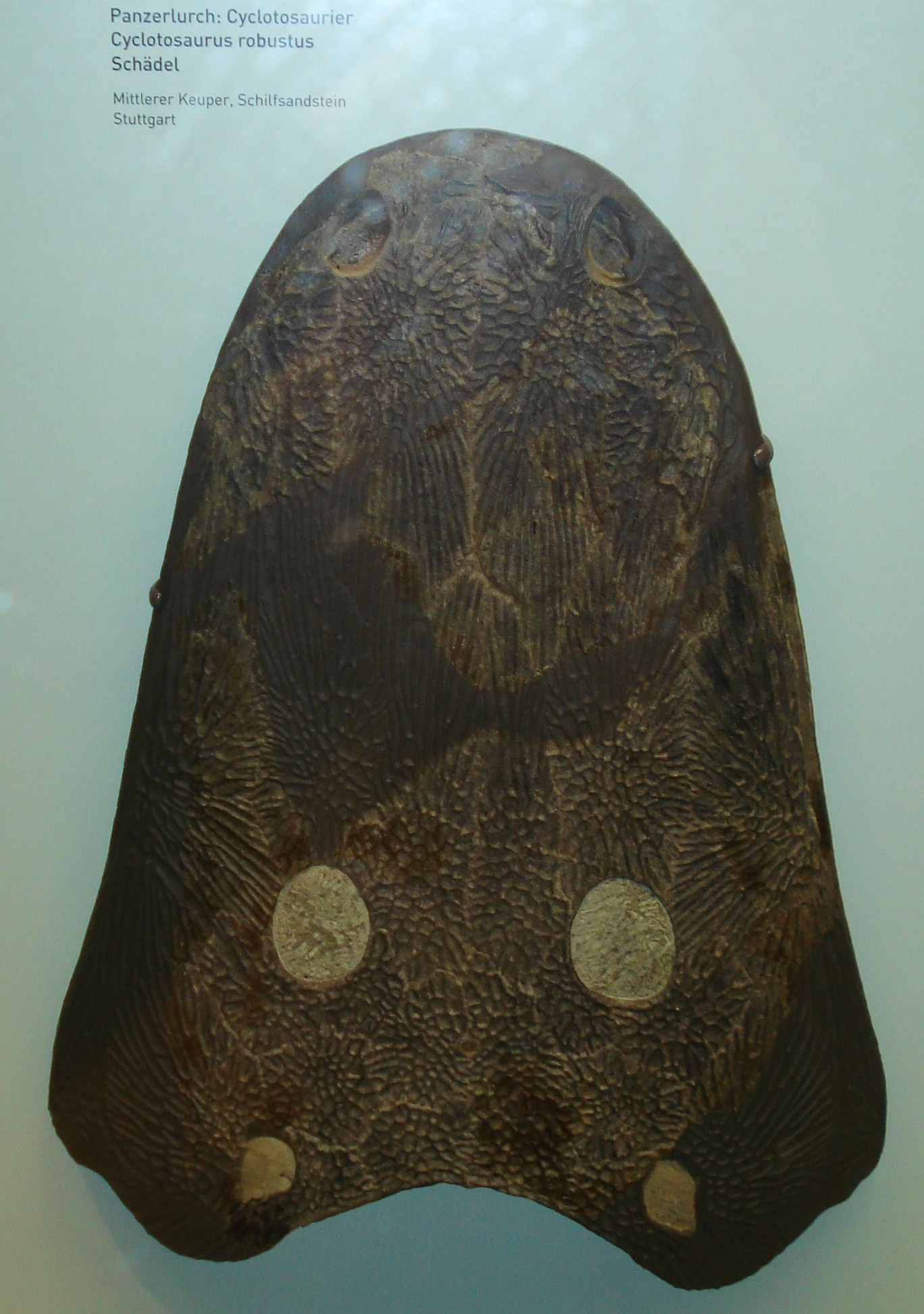 fossil of cyclotosaurus